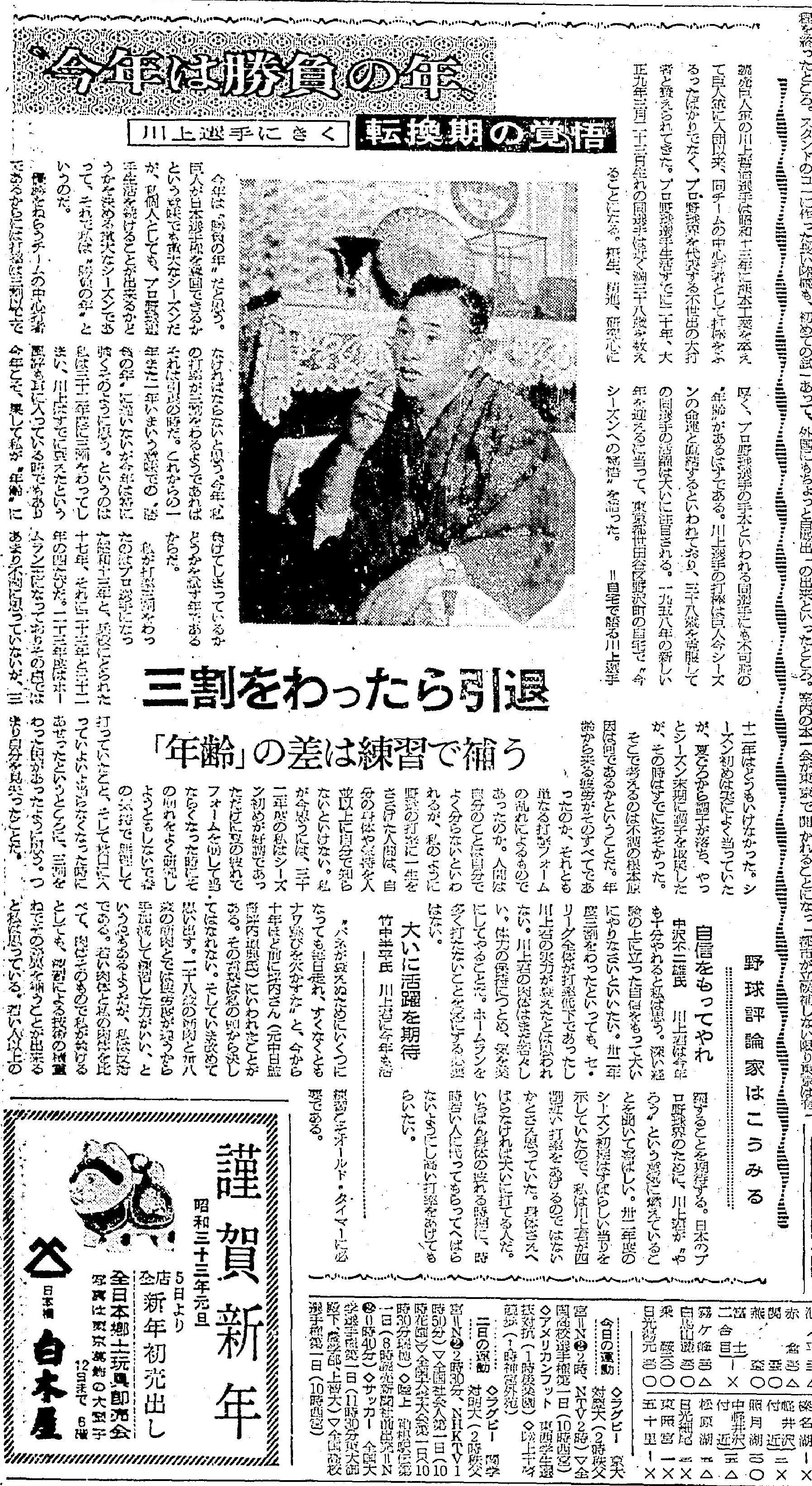 Tetsuharu Kawakami interviewd at home in new years 1958